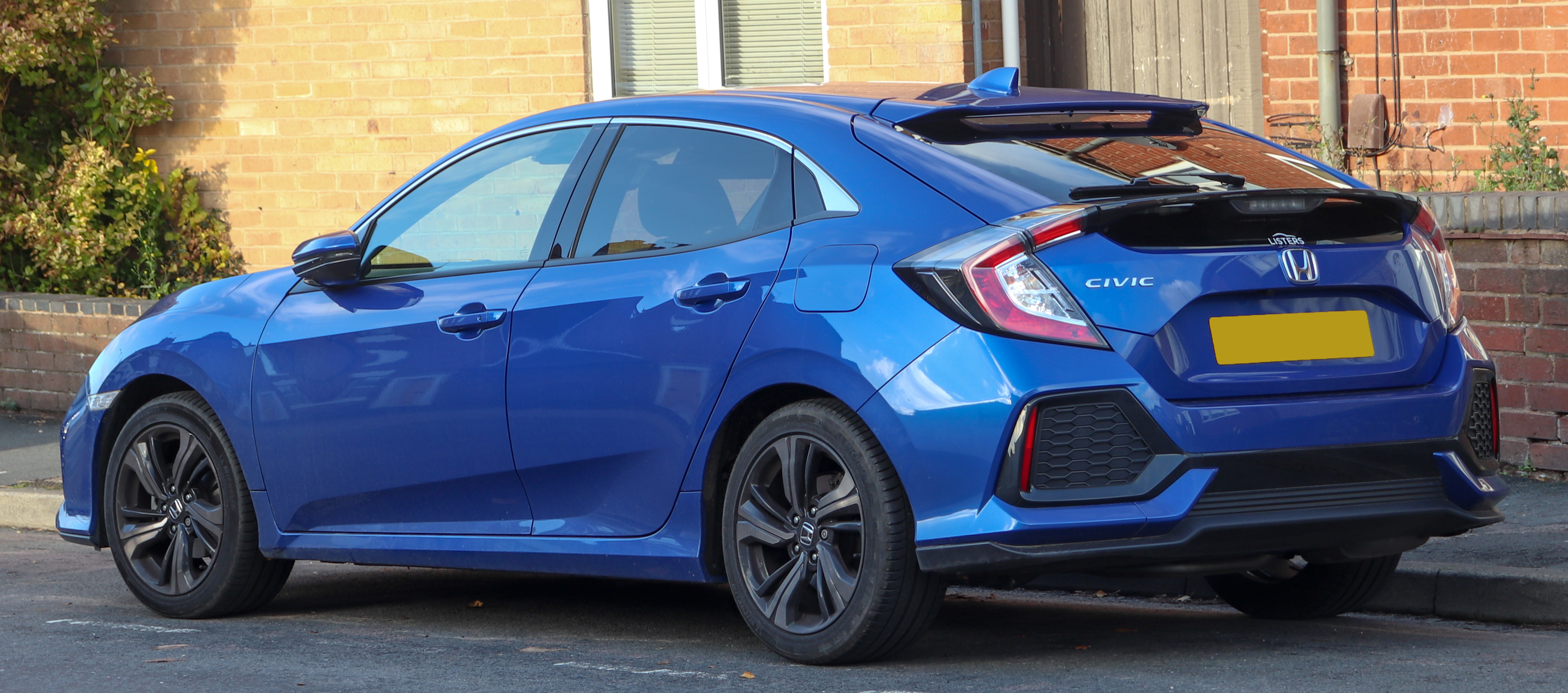 2017 Honda Civic EX VTEC CVT 1.0 Rear Taken in Warwick